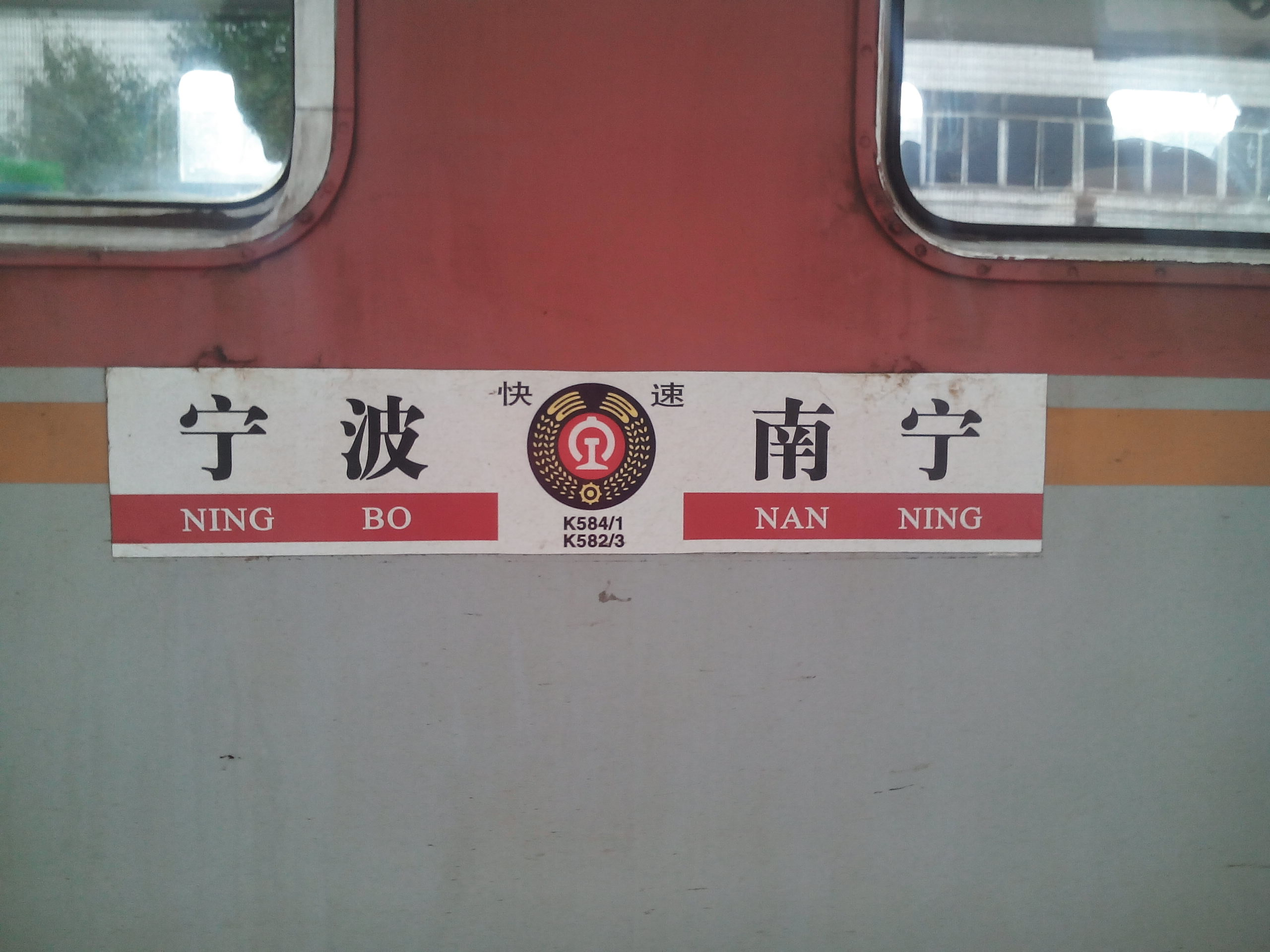 K581 2 3 4 info board in 201507